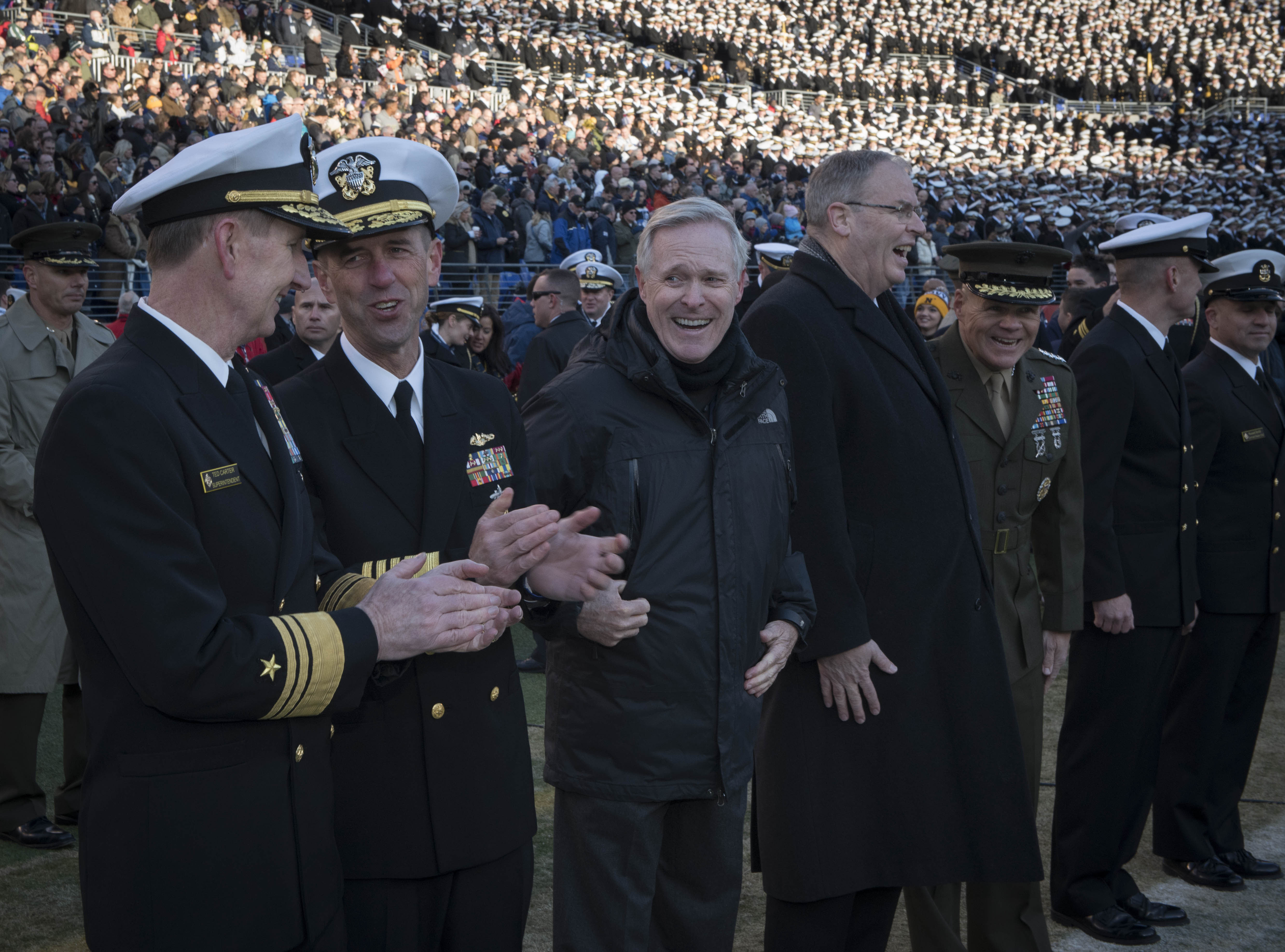 161210-N-ES994-036 BALTIMORE (Dec. 10, 2016) Secretary of the Navy Ray Mabus and Chief of Naval Operations (CNO) Adm. John Richardson, Commandant of the Marine Corps Gen. Robert Neller, and U.S. Naval Academy Superintendent Vice Adm. Ted Carter line the field during opening ceremonies for the 117th Army-Navy game in Baltimore. (U.S. Navy photo by Chief Petty Officer Elliott Fabrizio/Released)